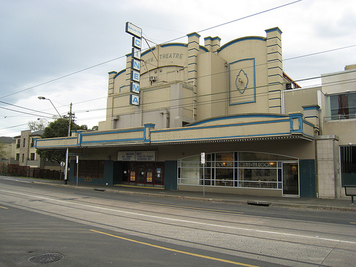 The place depicted is both the head office(unpictured on the right), and original cinema(main building pictured), of Palace Cinemas in Australia.